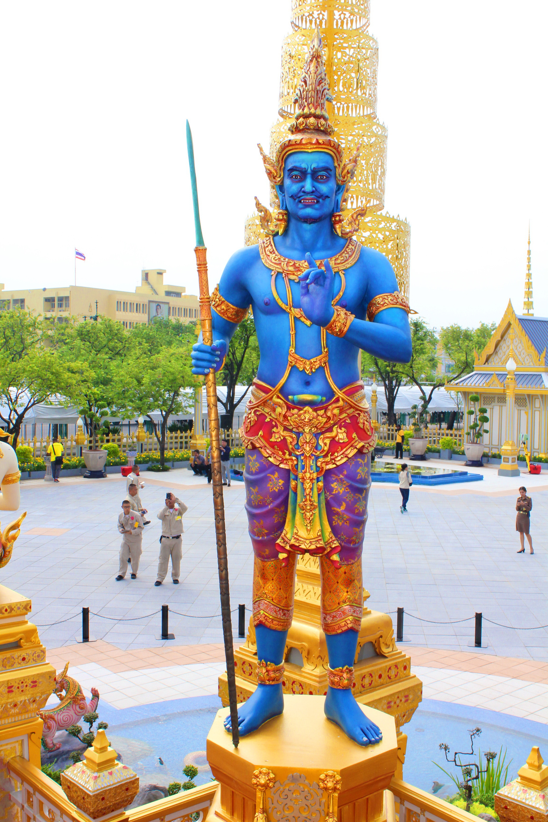 Royal Crematorium (Phra Merumas) Exhibition of King Rama 9 of Thailand